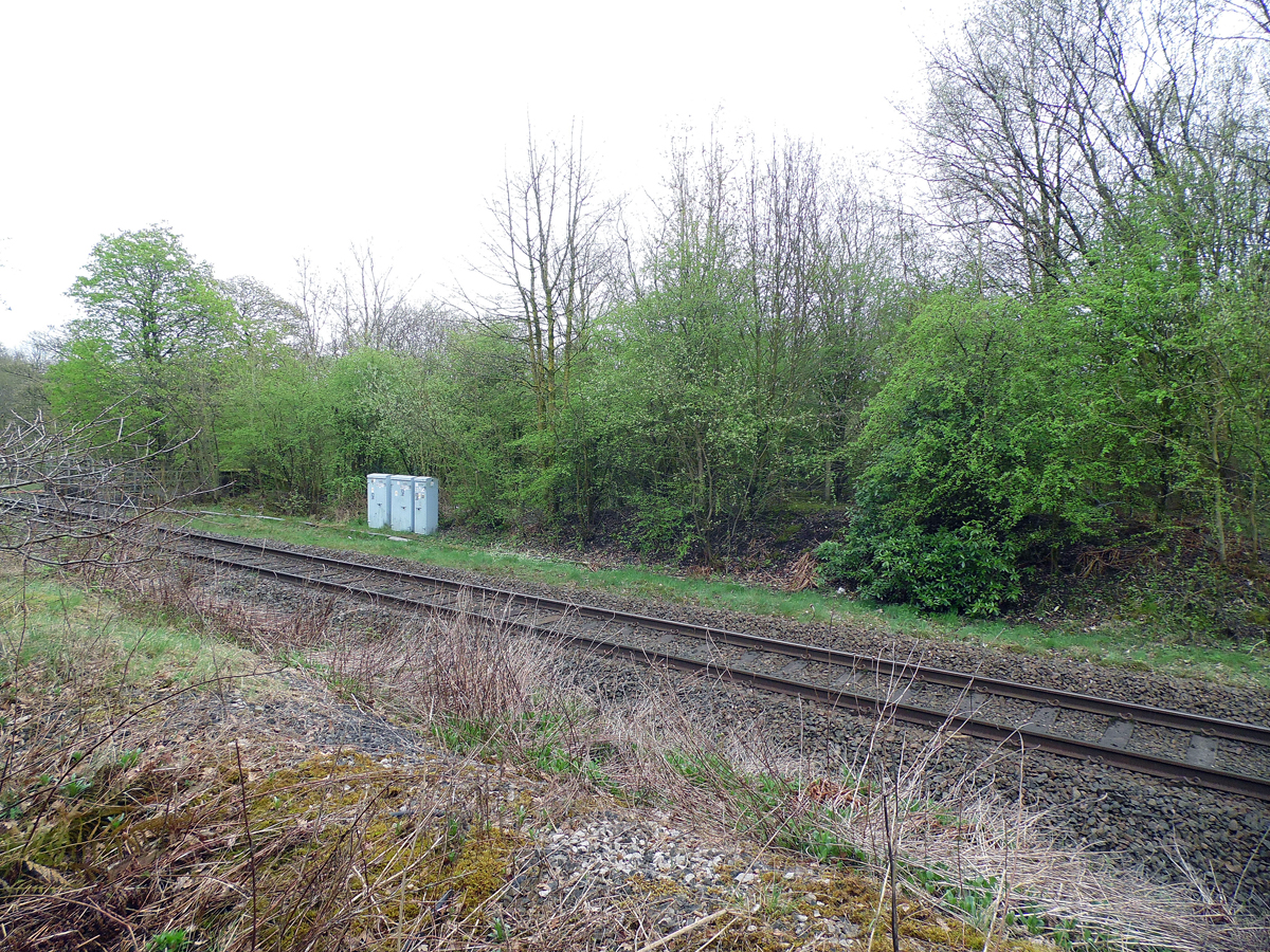 Nothing of the actual station remains, there is only the remnants of a footbridge towards the end of the platform area.